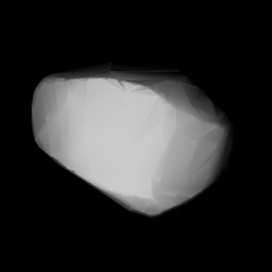 3D convex shape model of 1299 Mertona, computed using light curve inversion techniques. J. Hanuš, J. Ďurech, M. Brož, B. D. Warner (June 2011). "A study of asteroid pole-latitude distribution based on an extended set of shape models derived by the lightcurve inversion method". Astronomy and Astrophysics 530: A134. ISSN 0004-6361. arXiv